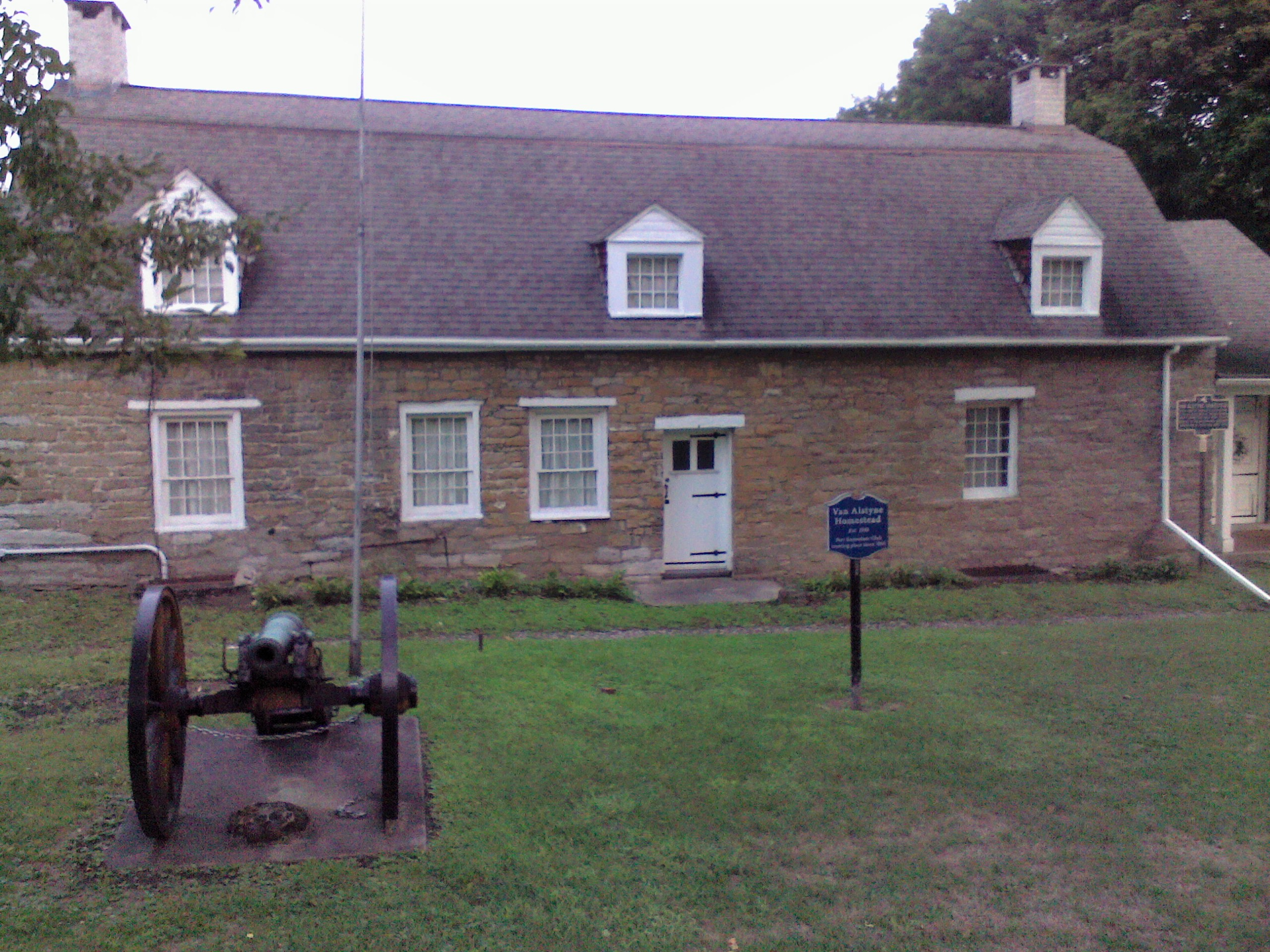 Image of the c. 1730 Van Alstyne Homestead in Canajoharie, NY.